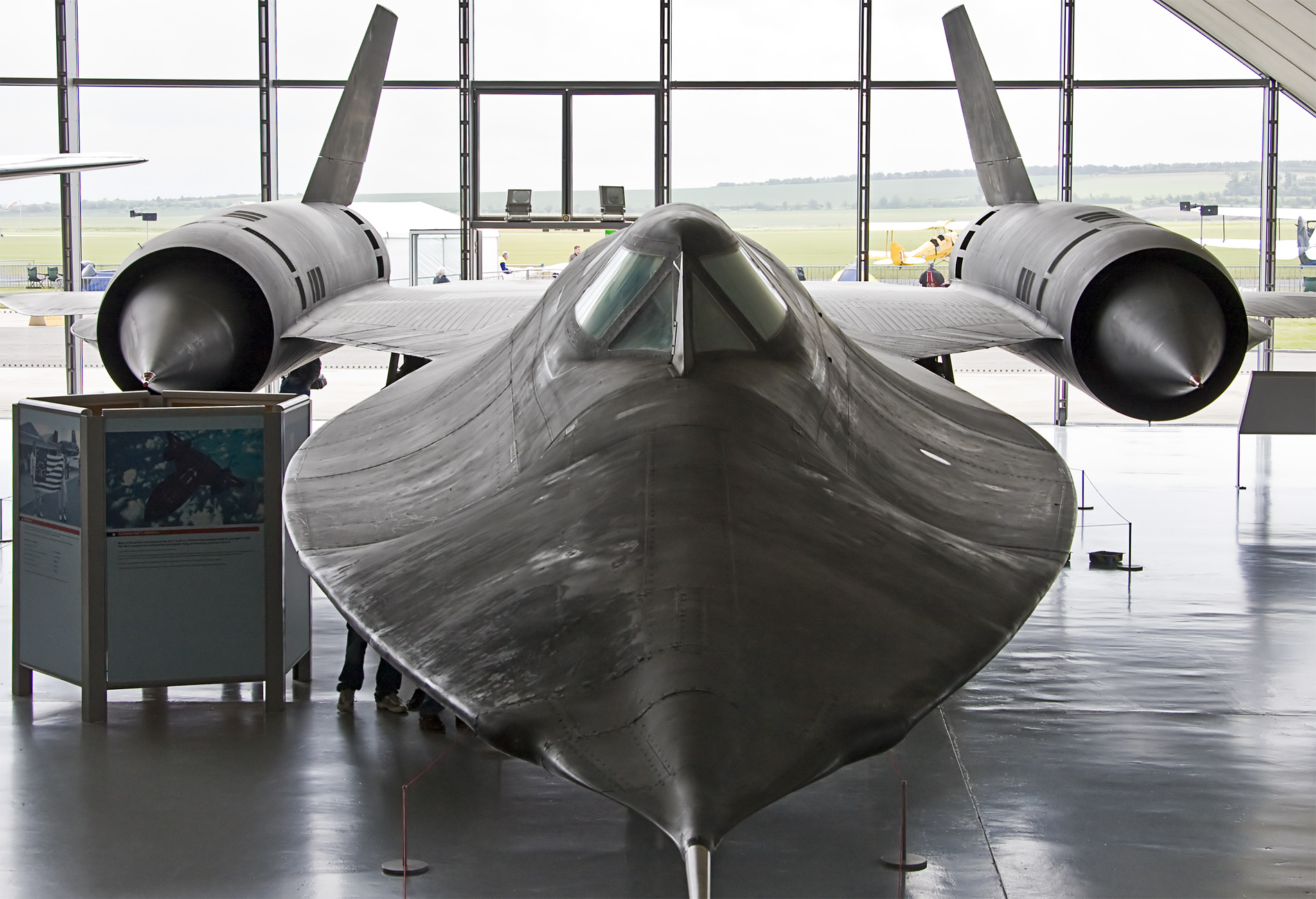 This is the american reconasance plane SR71 "Blackbird". Seen at Imperial War Museum at Duxford, UK. This aircraft holds the speed and altitude records for a jet engined aircraft.